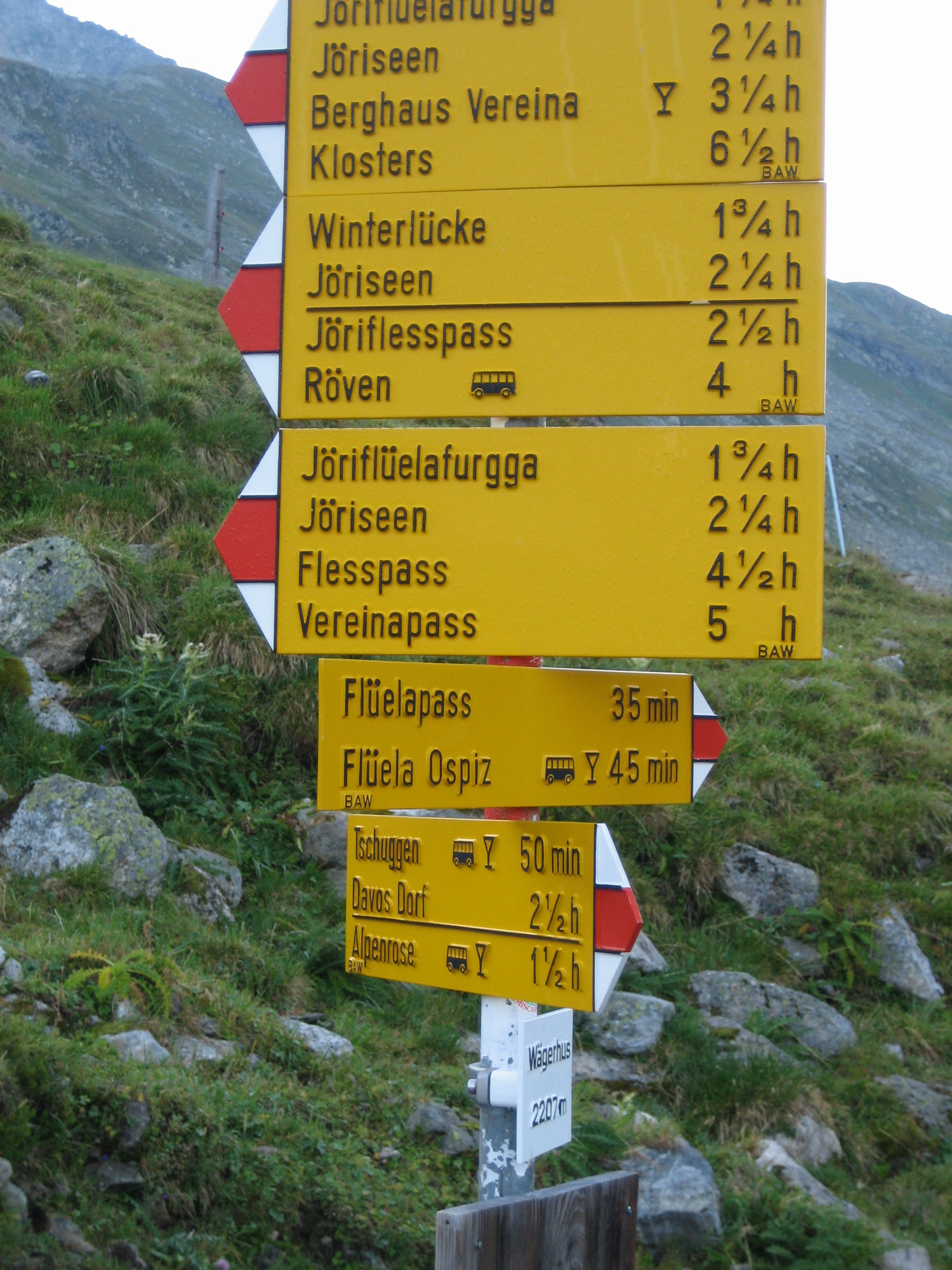 Fingerpost at Wägerhütta (Davos, Grison, Switzerland)